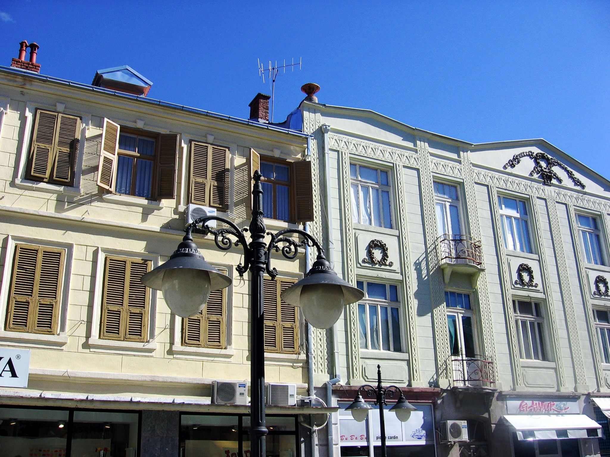 Author: MatriX